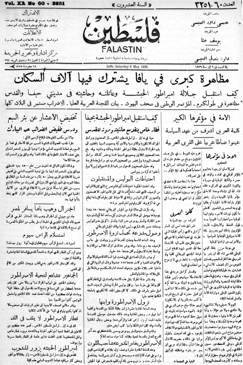 1936 issue